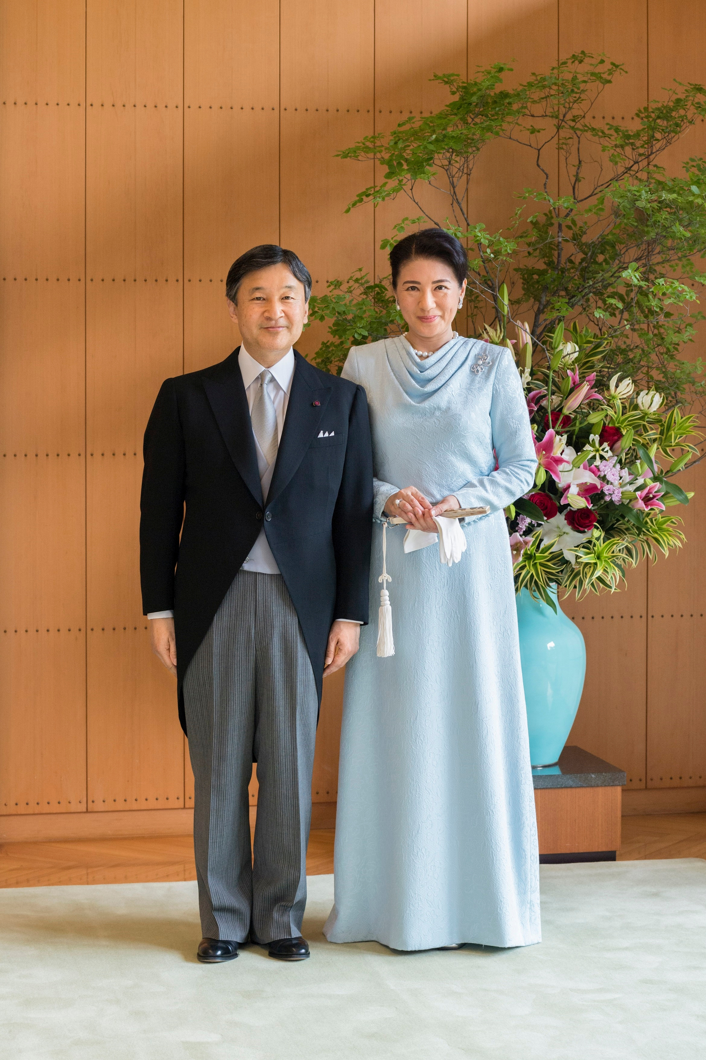 Emperor of Japan Naruhito and Empress of Japan Masako in 2019.